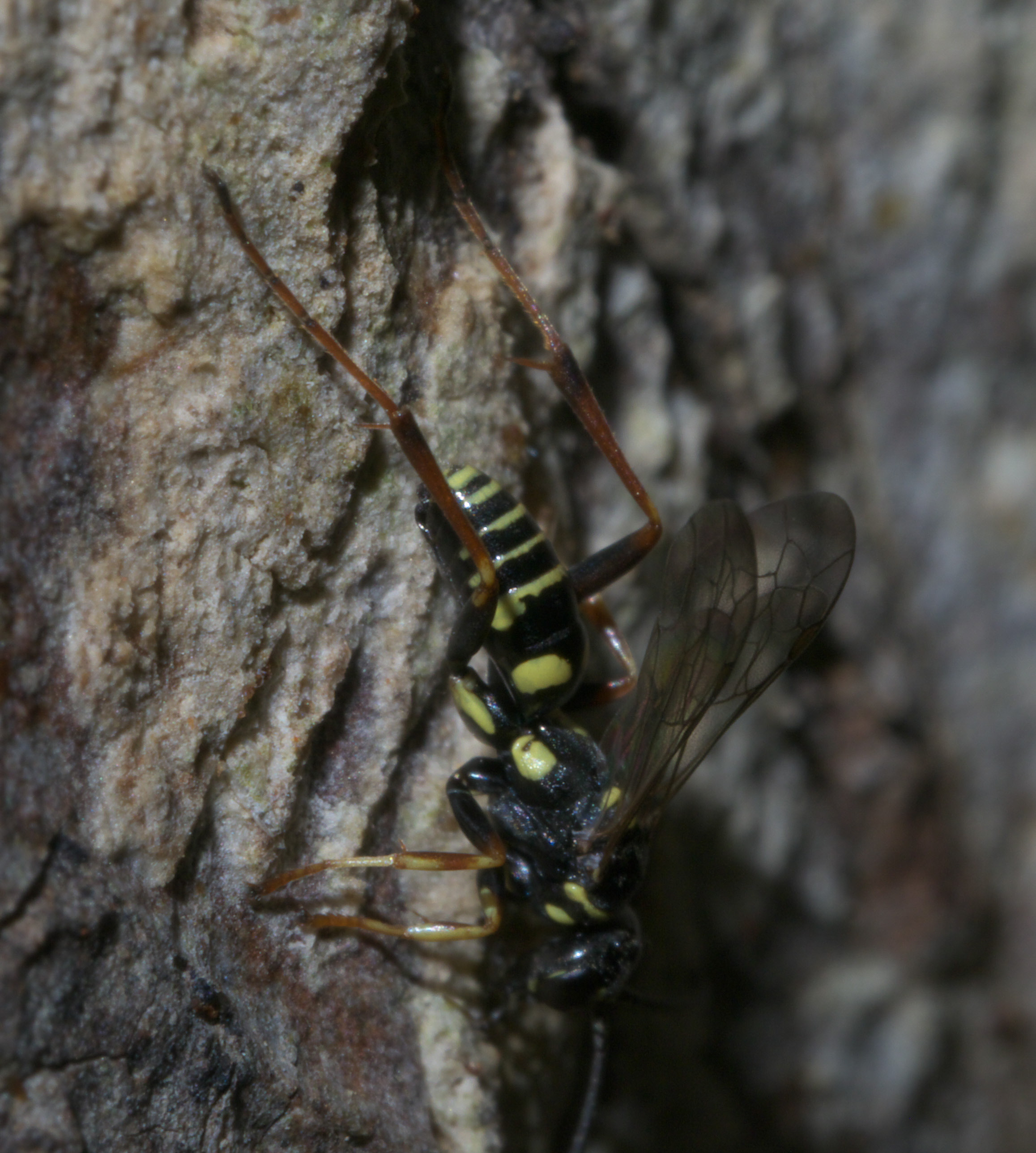 Ceropales maculata, Family: Spider Wasps, Size: 5 mm, ID Confidence: 98